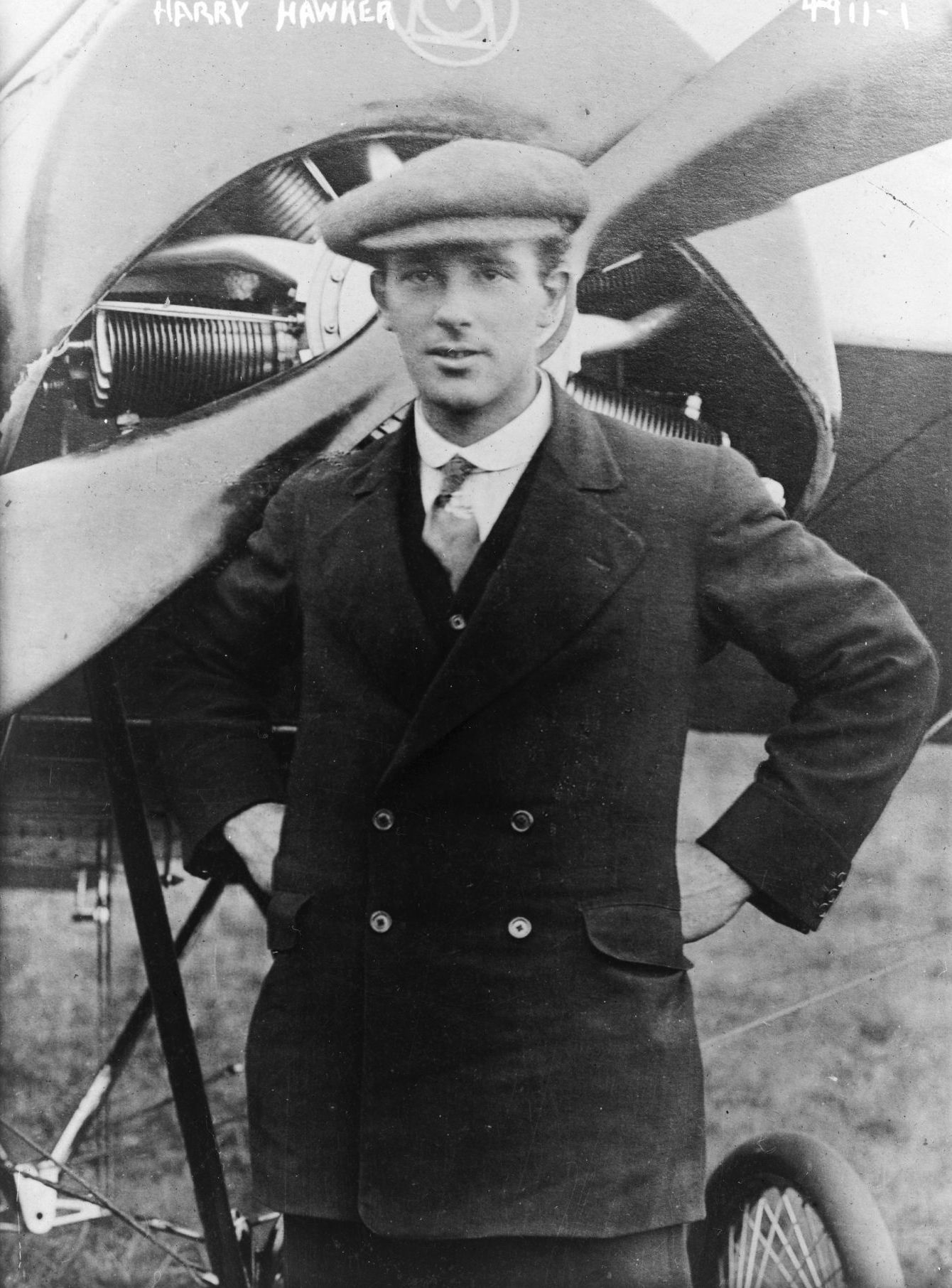 Harry Hawker to try transatlantic flight from St. John / Photo. by Bain News Service, New York City.